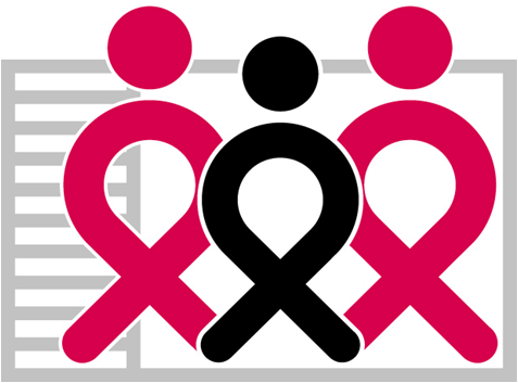 Logo of the Vaccine Research Center, National Institute of Allergy and Infectious Diseases, National Institutes of Health, USA